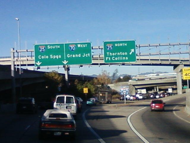 Interstate 70 west=bound off ramp to Interstate 25 at the "Mousetrap" interchange in Denver, Colorado.